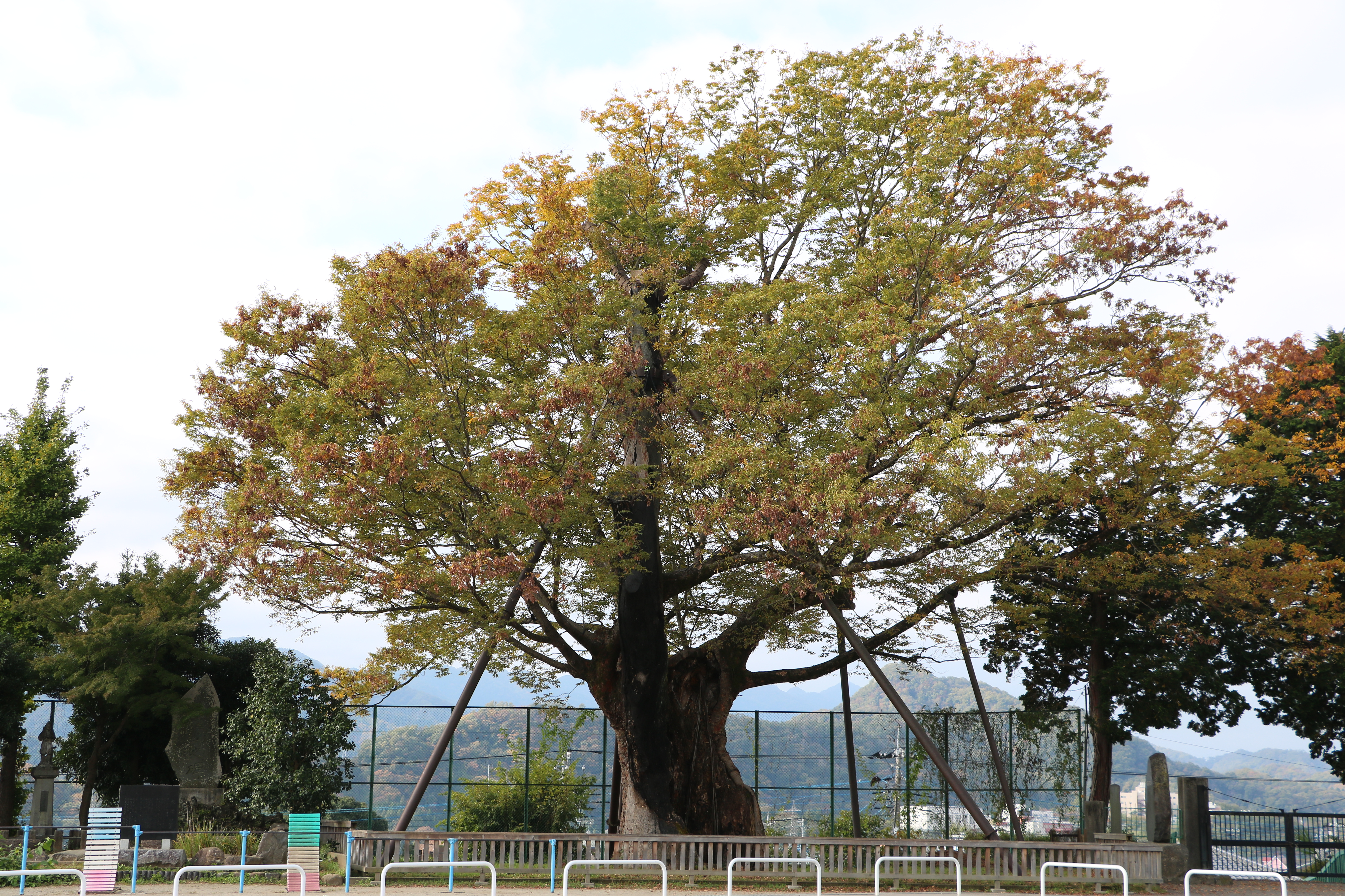 Grand Zelkova serrata of Uenohara